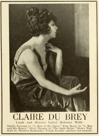 Advertisement in Moving Picture World, May 1919